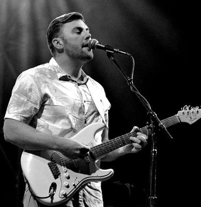 Goldroom performing live in 2015